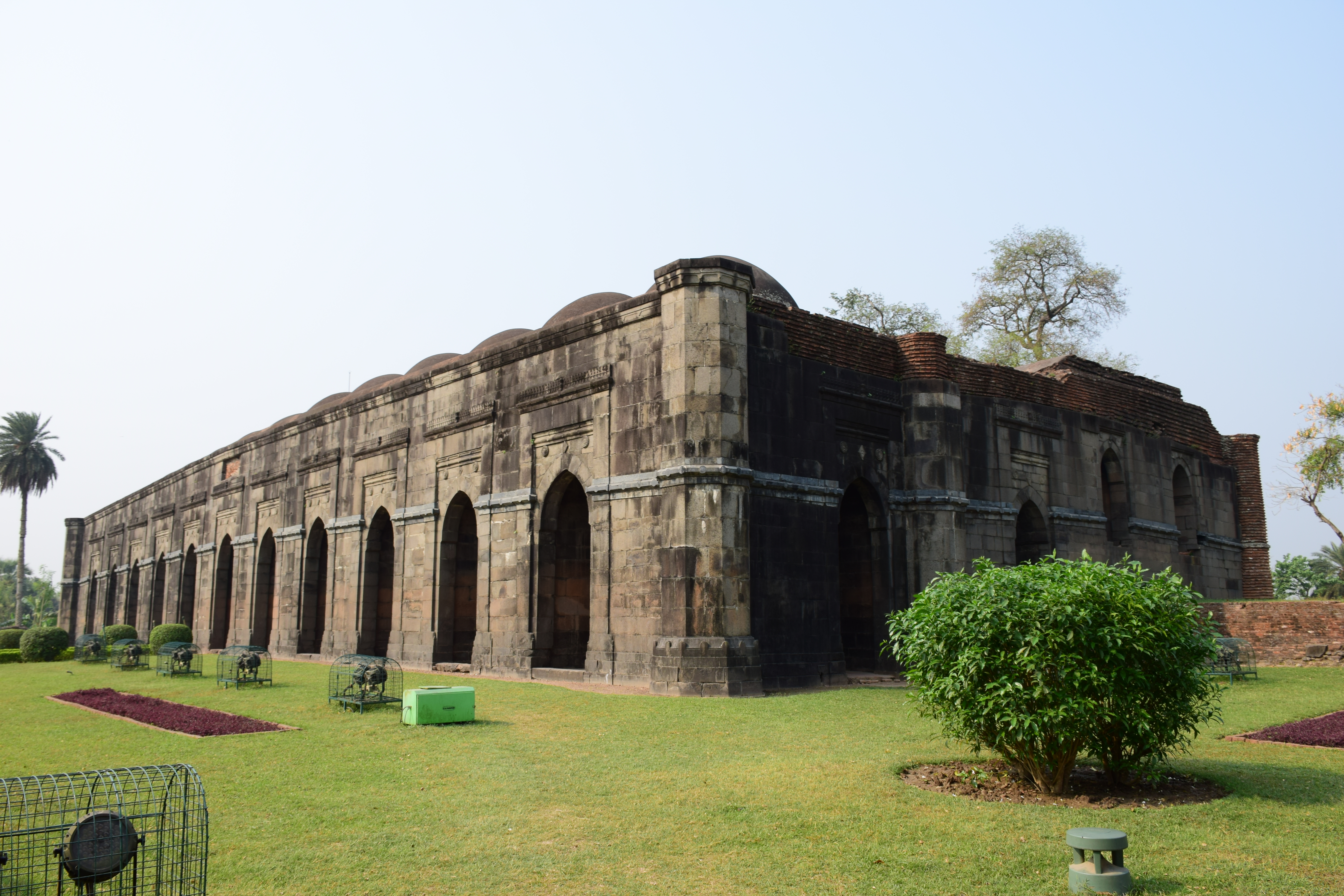 Baraduari Mosque alias Barasona Mosque at ancient capital of Bengal Gour. Located in Malda district , it was built by Sultan Nasrat Shah in 1526.